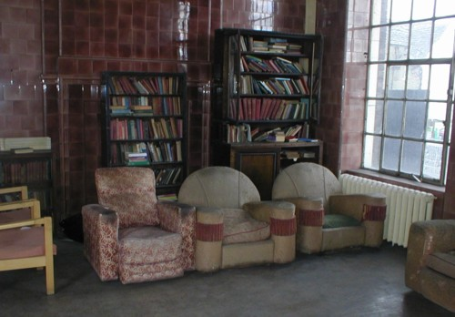 My own photo of a lounge at Driscoll House, New Kent Road